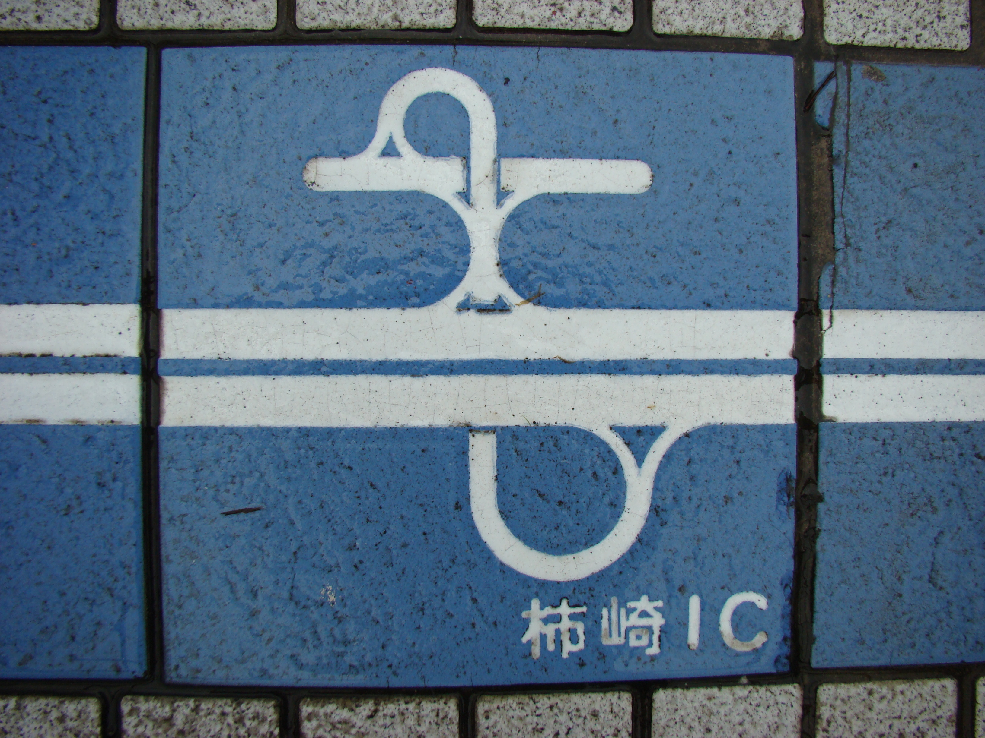 The tile which designed a shape of the Kakizaki Interchange（Hokuriku Expressway）（There is this tile in Hokuriku Expressway Nadachi-Tanihama Service Area.）. Place - Chayagahara,Joetsu City,Niigata Prefecture,Japan Date - August 9, 2009 Format - JPEG, 3264x2448pixel, 24bit colors. Photographer - NALA Wiki (talk)